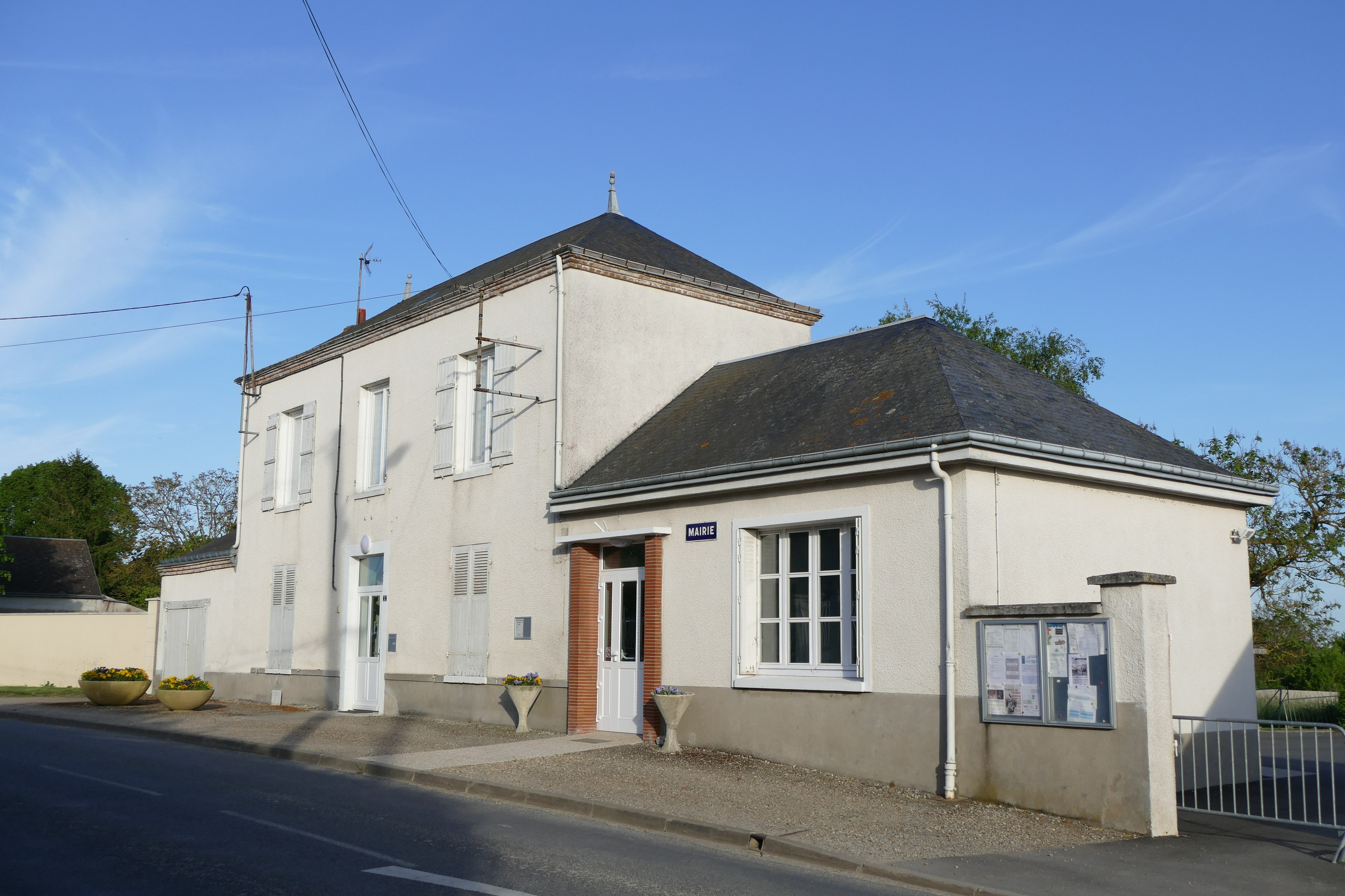 The city hall in Montigny (Loiret, Centre-Val de Loire, France).